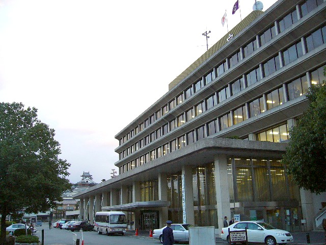 Fukuchiyama City Hall in Kyoto Preferture, Japan